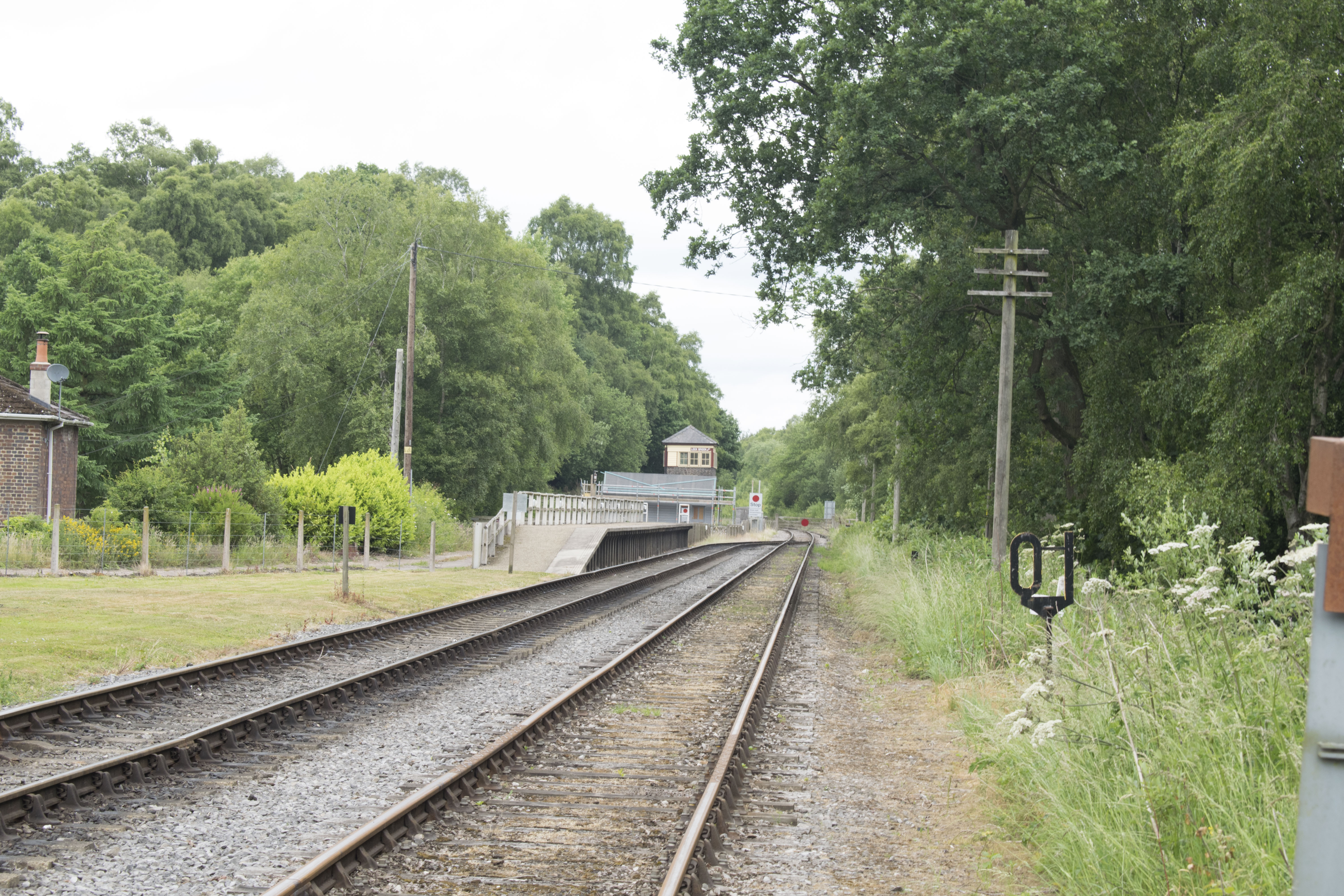 Please ask permission before you use this photo for self purposes.